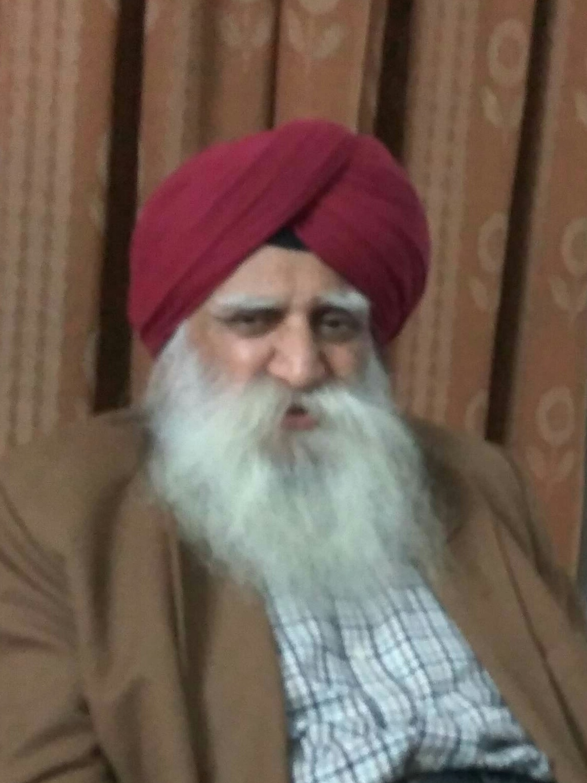 Jaiteg Singh Anant